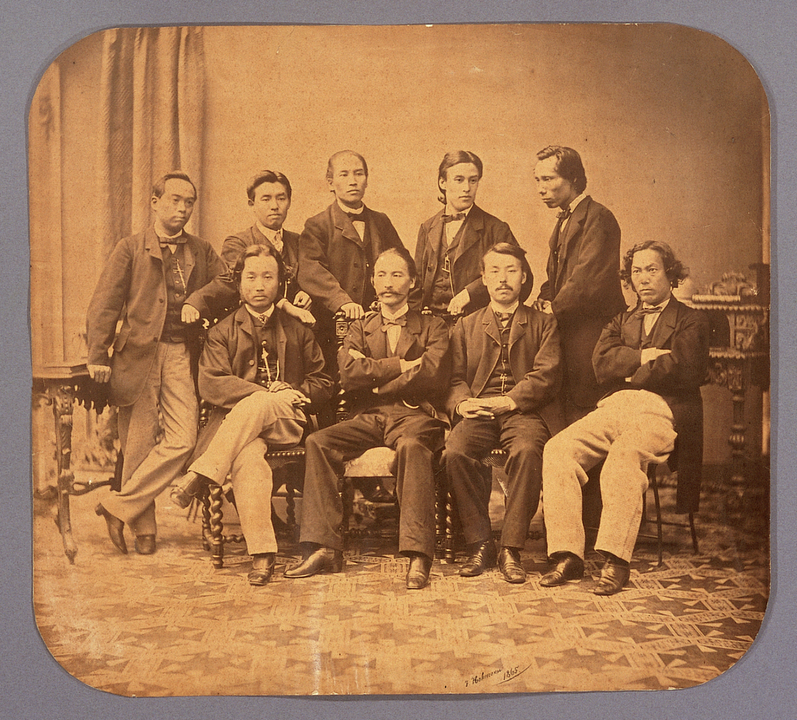 The first students dispatched abroad by the Tokugawa shogunate